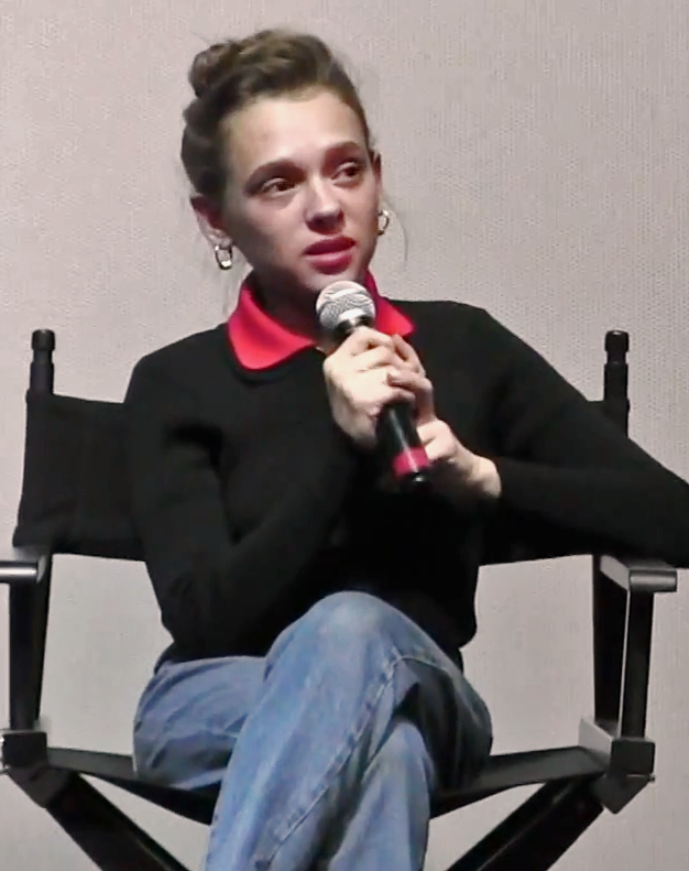 Shira Haas attending Israel Film Festival's post-screening discussion of The Conductor (2018) in Los Angeles